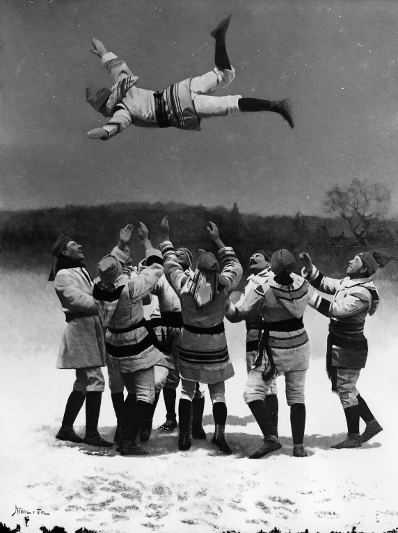 The Bounce, Montreal Snowshoe Club, Canada, composite.